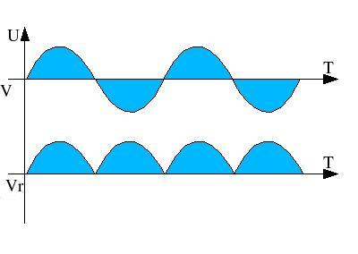 Time plot of input and output of ideal full wave rectifier